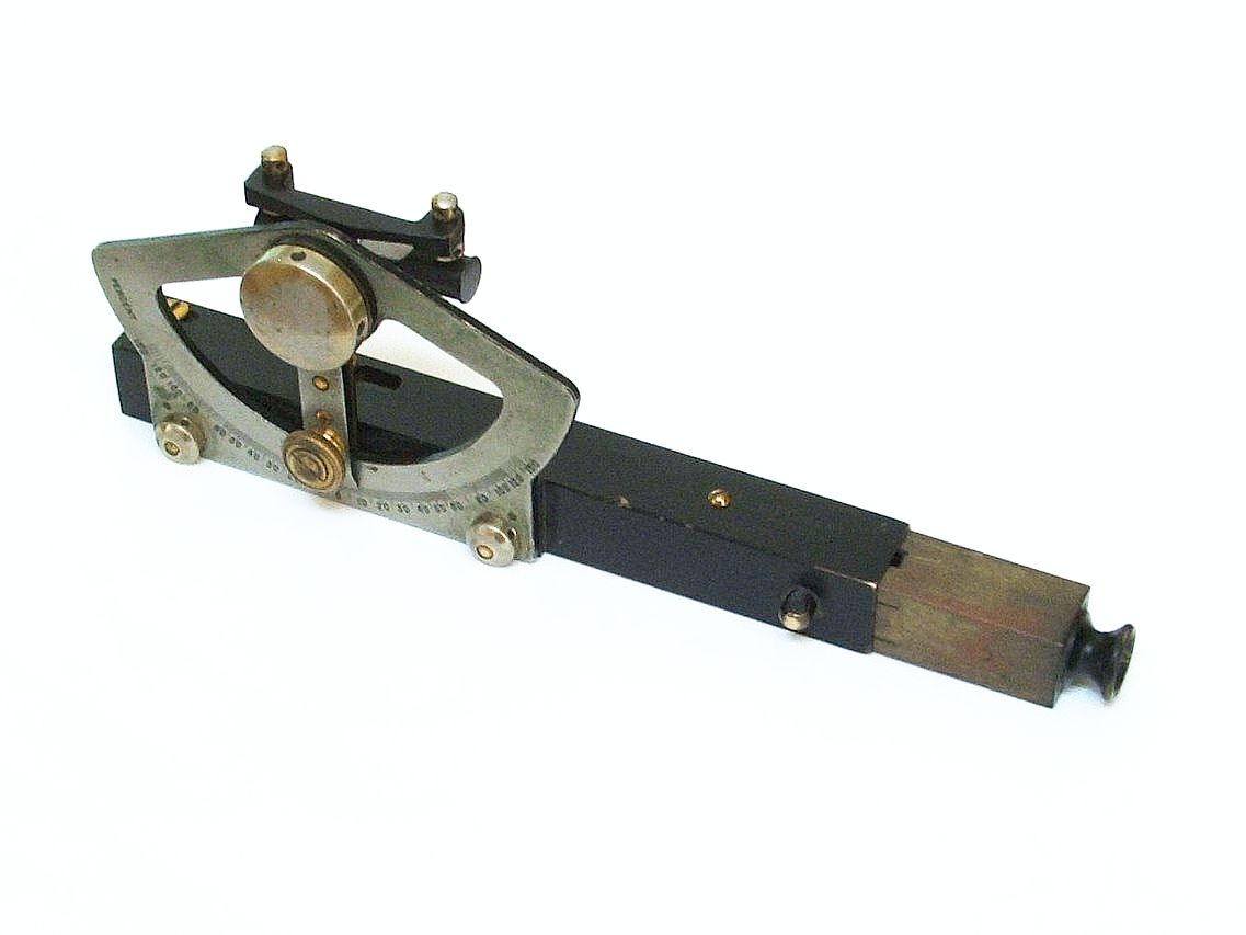 Abney level or Inclinometer made by Eugene Dietzgen Company of Chicago circa 1936 (serial number 22098). The scale is reversible. As shown in the photo, it is set for measuring percent grade. The reverse measures degrees of arc.